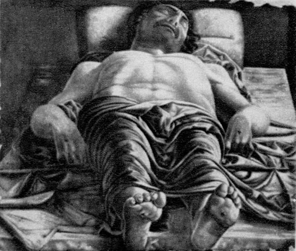 XVI century copy of Mantegna's Dead Christ